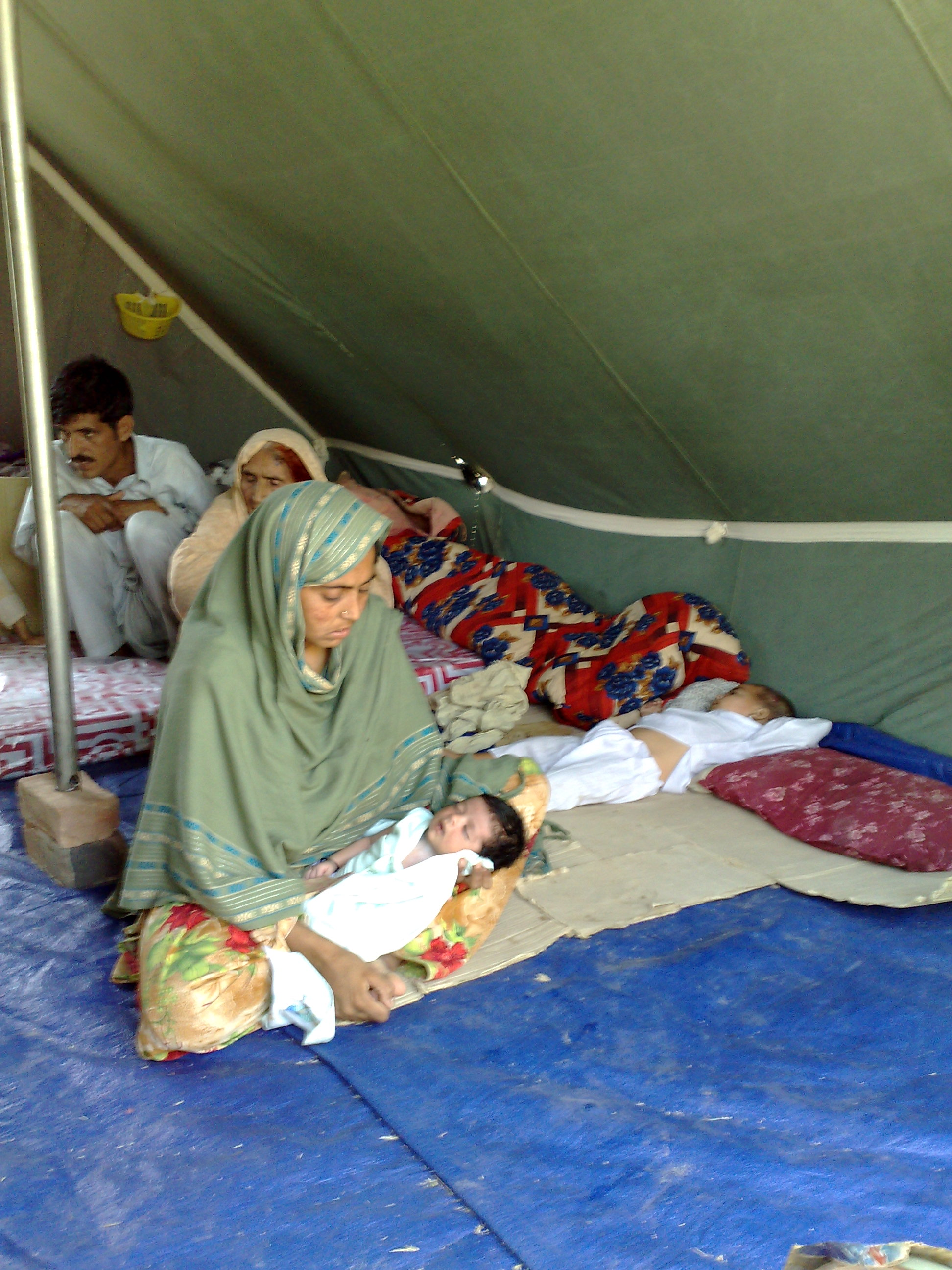 The Amam refugee camp is named after its first native born there. Her name, Amam, means peace.